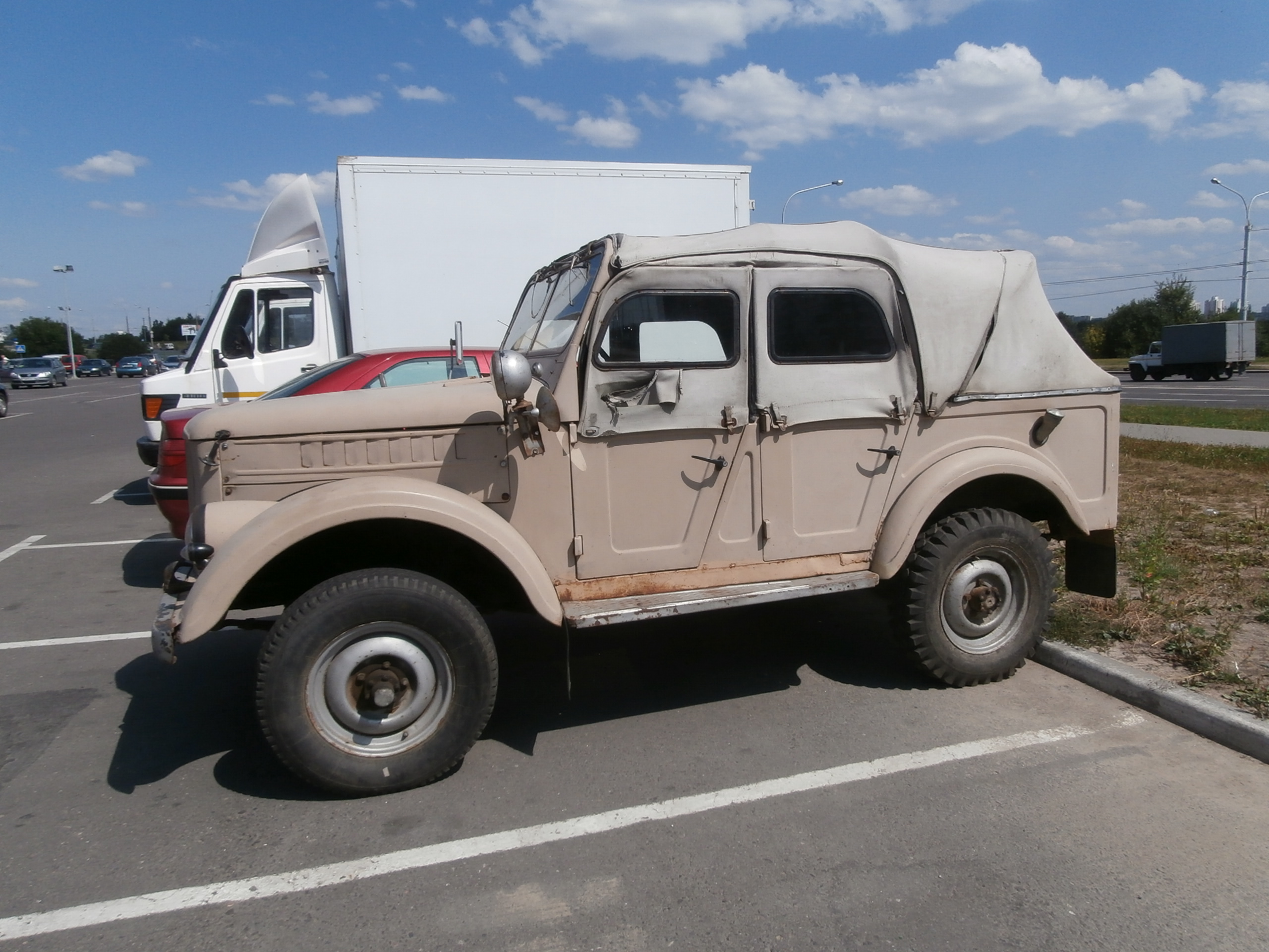 UAZ-69, licence plate K 96 54 MI, parked at Gippo ul. Yanki Luchiny - Igumenskiy Trakt, Minsk 24 July 2014